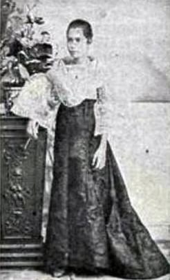 Hilaria del Rosario Aguinaldo (1877 - 1921) — "the 1st" First Spouse of the Philippines. She was the first wife of Emilio Aguinaldo, the 1st President of the Philippines, and active in the Philippine Revolution for independence.